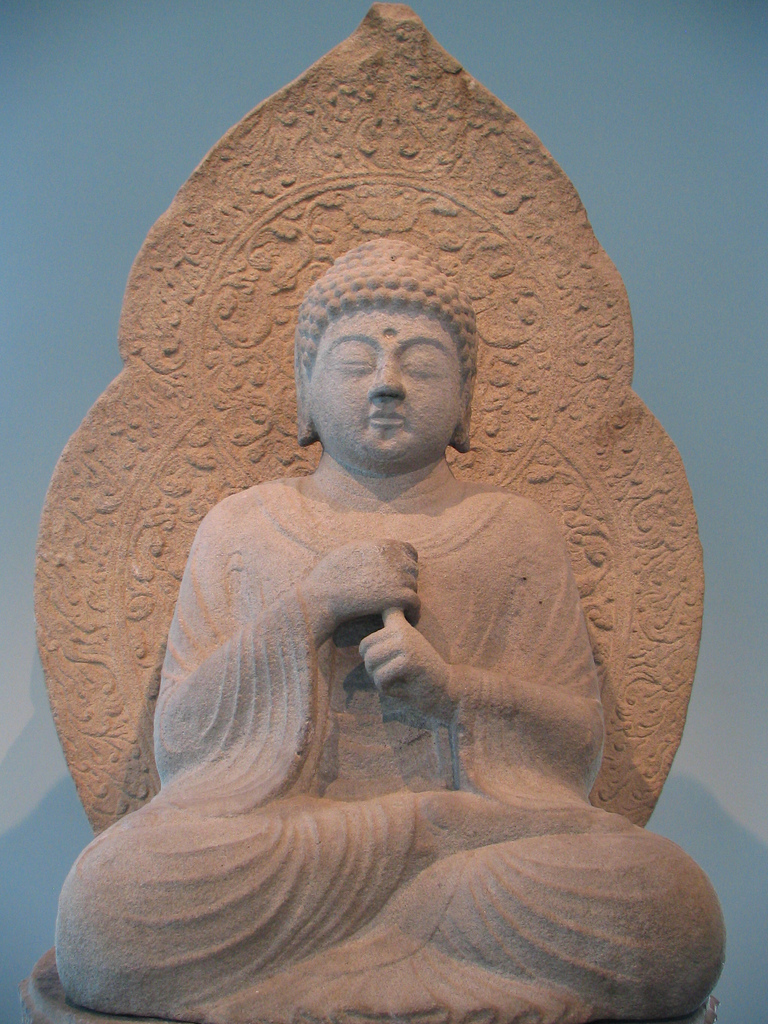 Vairocana Buddha from the Unified Silla era, 9th century.